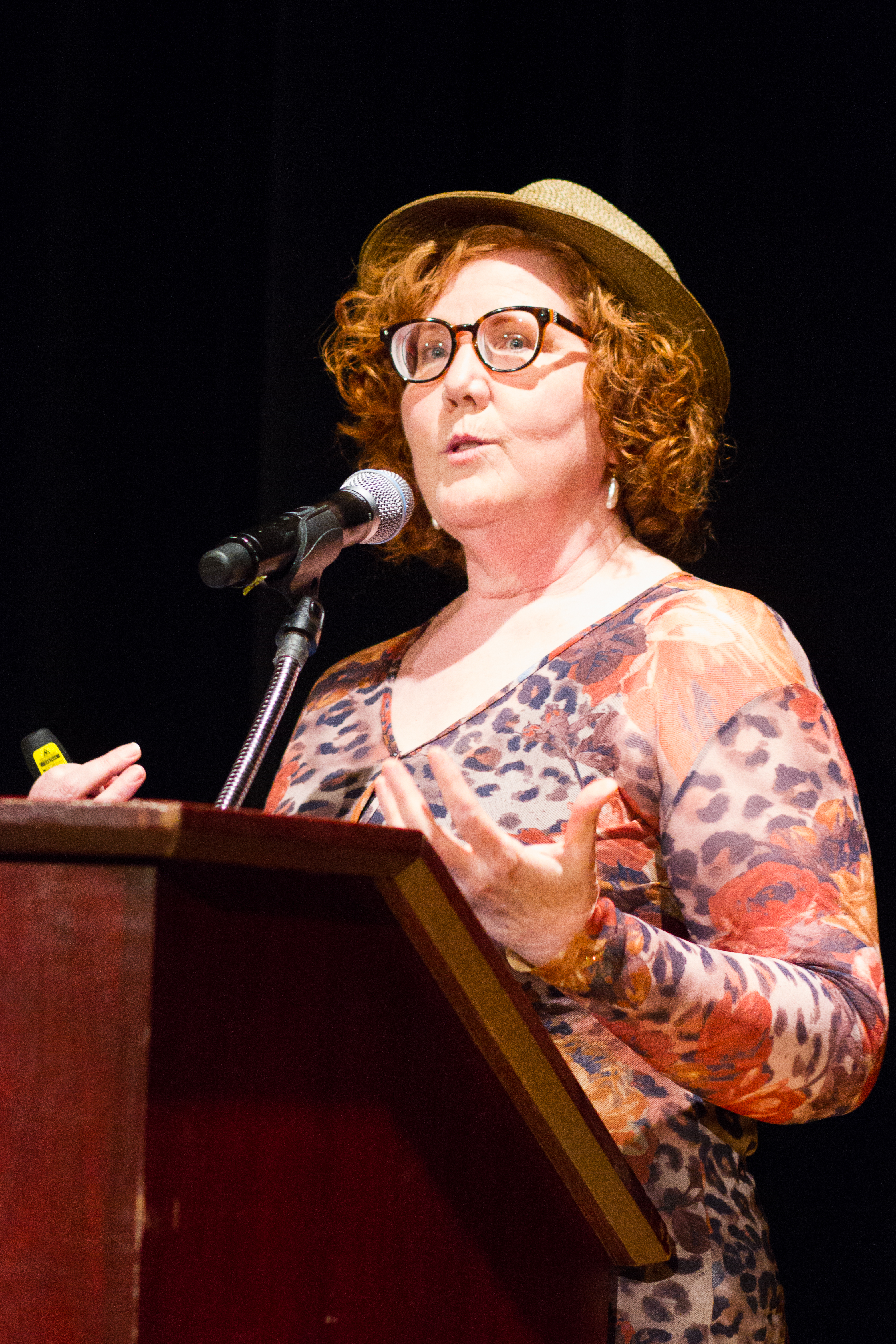 Mary Johnson at SSAcon 2015. "Living an Authentic Life: Big Concept, Practical Steps."